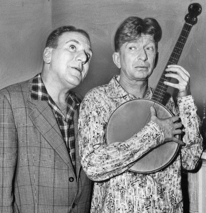 Publicity photo of William Bendix and Sterling Holloway from The Life of Riley television program, 1957. (Tom D'Andrea was obscured by the news edits.)